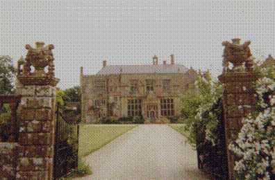 Brympton d'Evercy. Photographed by uploader. Summer 1999. Released by uploader into public domain.